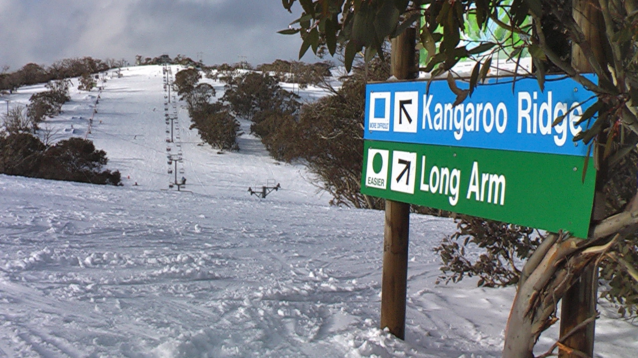 Selwyn Snowfields, looking towards Township Triple Chair. July 2011.